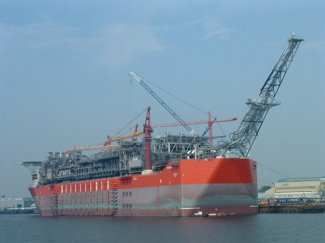 Bonga at Wallsend The 'Bonga' FPSO (Floating Production, Storage and Offloading vessel) being fitted out at the AMEC yard in Howdon, Wallsend Picture taken from near the Pedestrian Tunnel across the Tyne in Jarrow